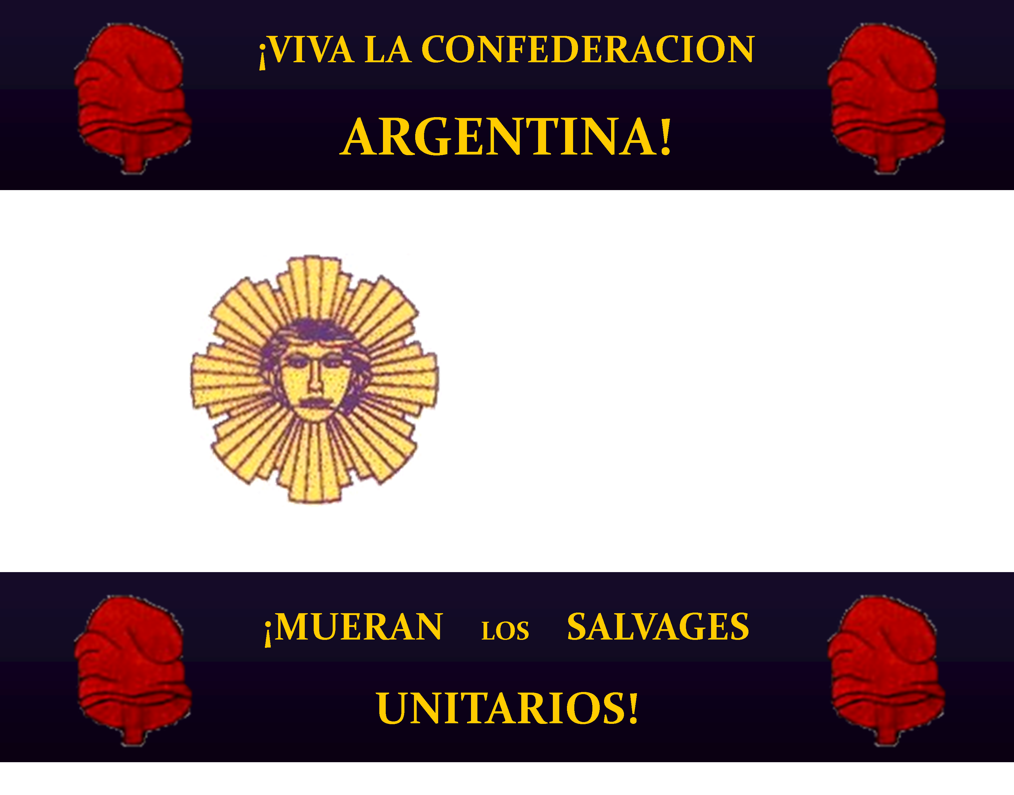 The flag of the Argentine Confederation, adopted by Buenos Aires and the rest of Provinces.